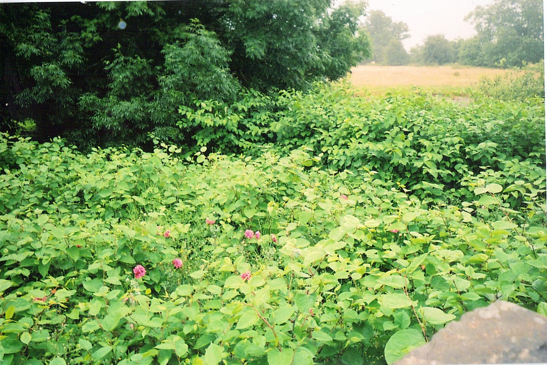 A picture I took of the village of Caersws on my holiday there in 2010. The plants are Japanese knot weed and roses. I donate it to the public domain.